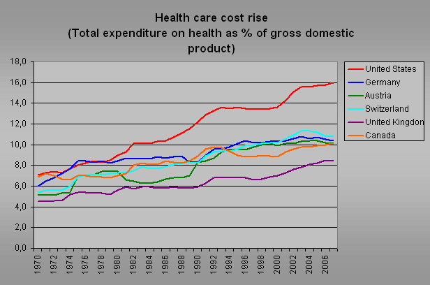 Data Source [1] (OECD Health Data 2009). Health care cost rise based on total expenditure on health as % of GDP. Countries are USA, Germany, Austria, Switzerland, United Kingdom and Canada.